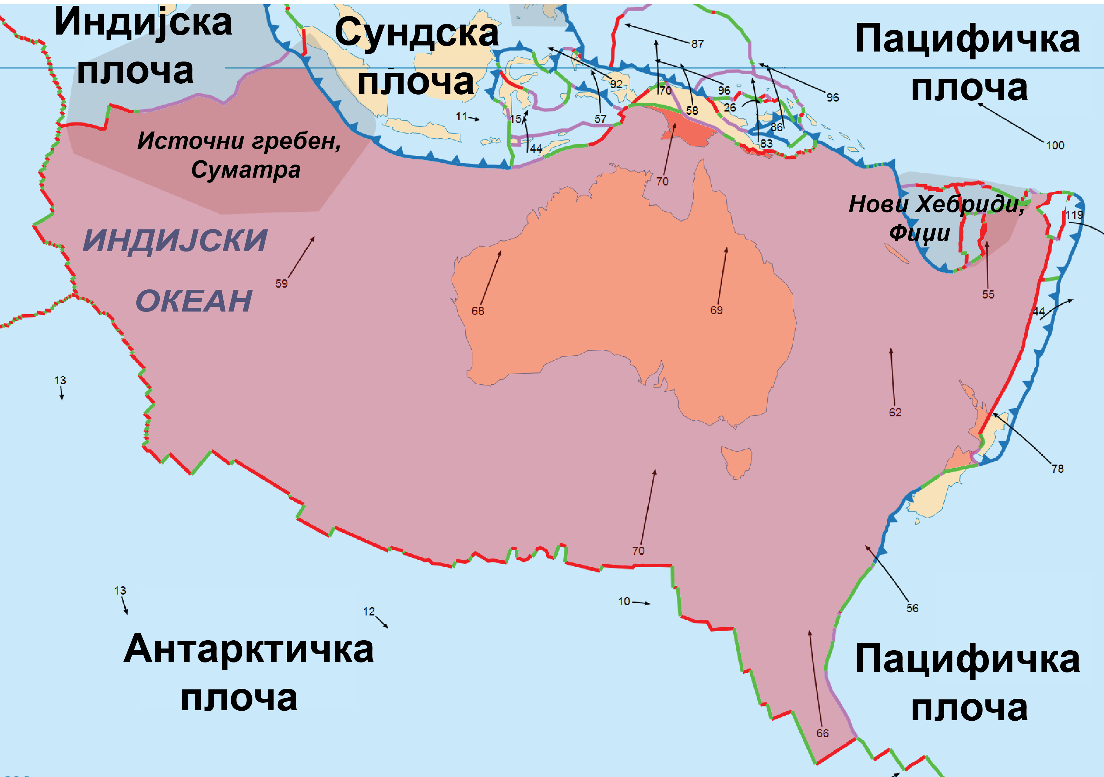 A map of the Australian plate